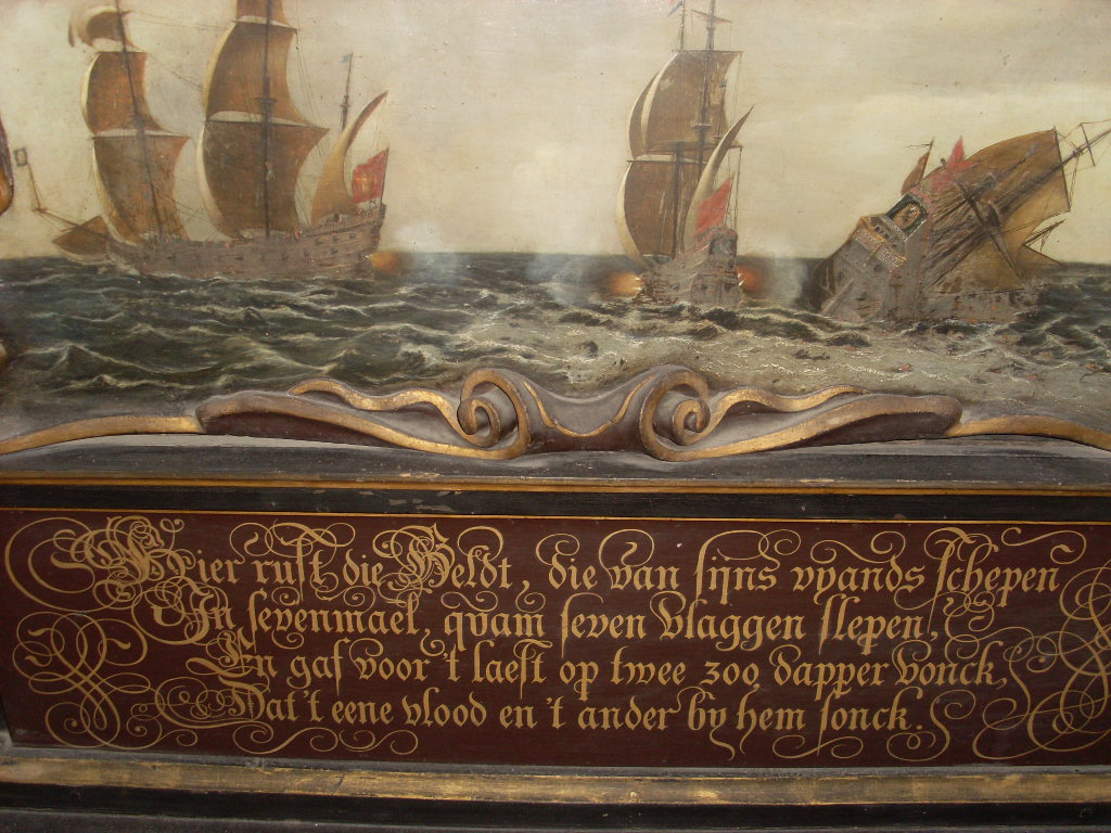 Seabattle and Dutch text. An attempt at translation: Here rests the hero, who of the ships of foes, came back seven times with the flags of those. And who, at last, so bravely shot at two, so that one remained afloat as the other did not do.